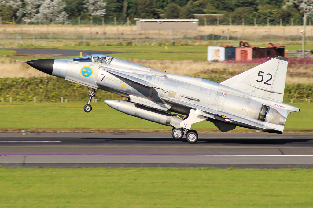 SE-DXN SAAB Viggen "Gustav 52" landing back at Prestwick from Portrush Scottish Airshow 2015